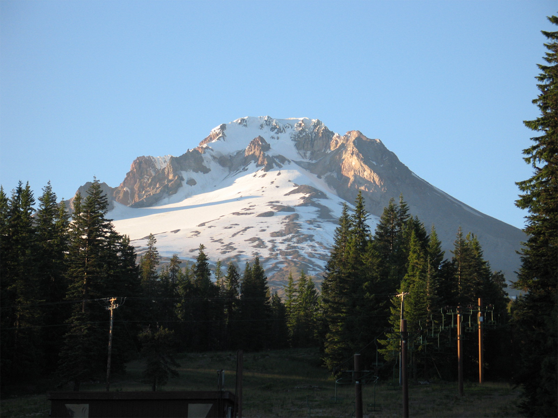 Mount Hood, Oregon, from rest stop off of Highway 26.